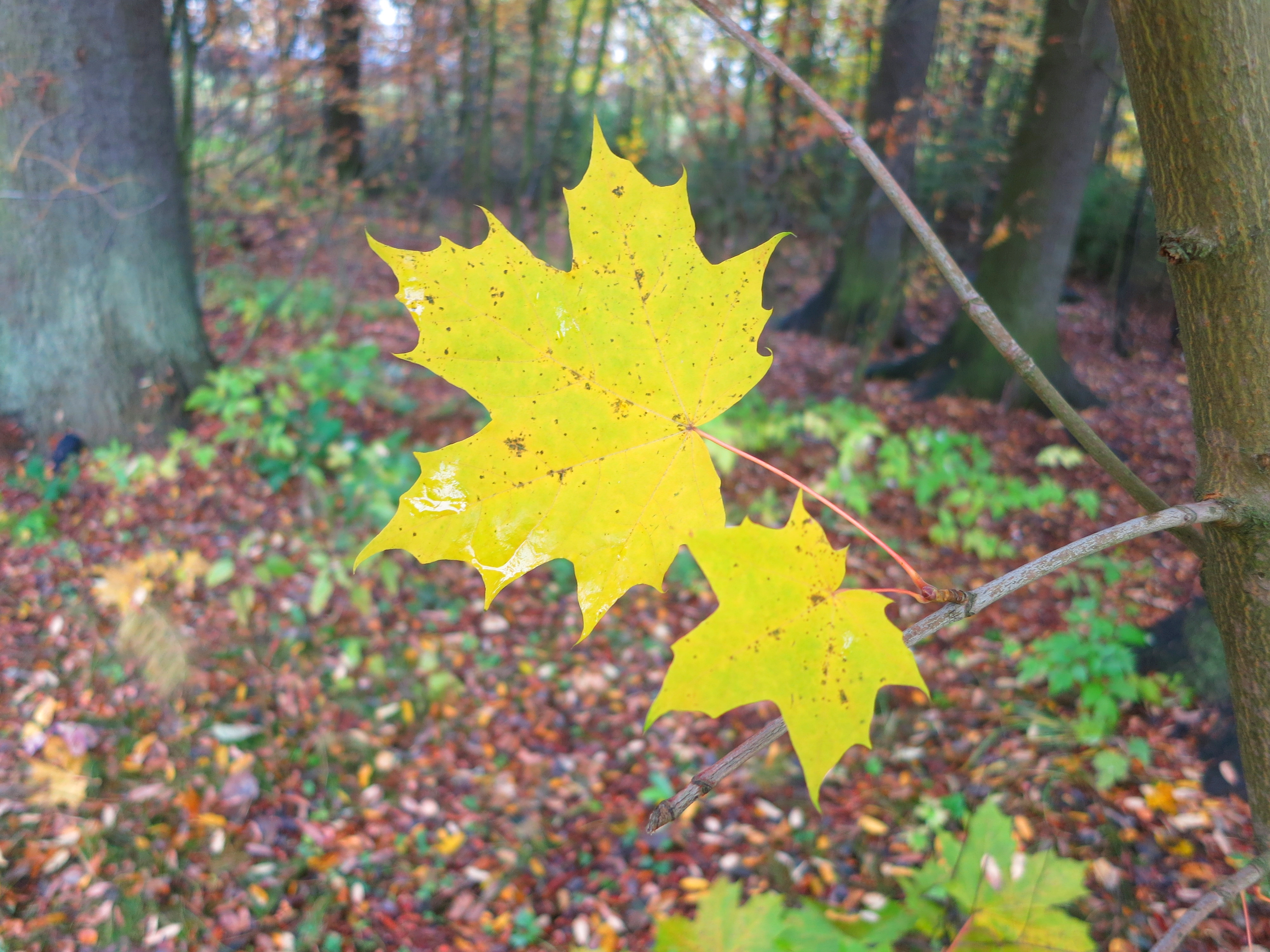 Last leaves on Norway maple (Acer platanoides) in autumn (Hyvinkää, Finland)